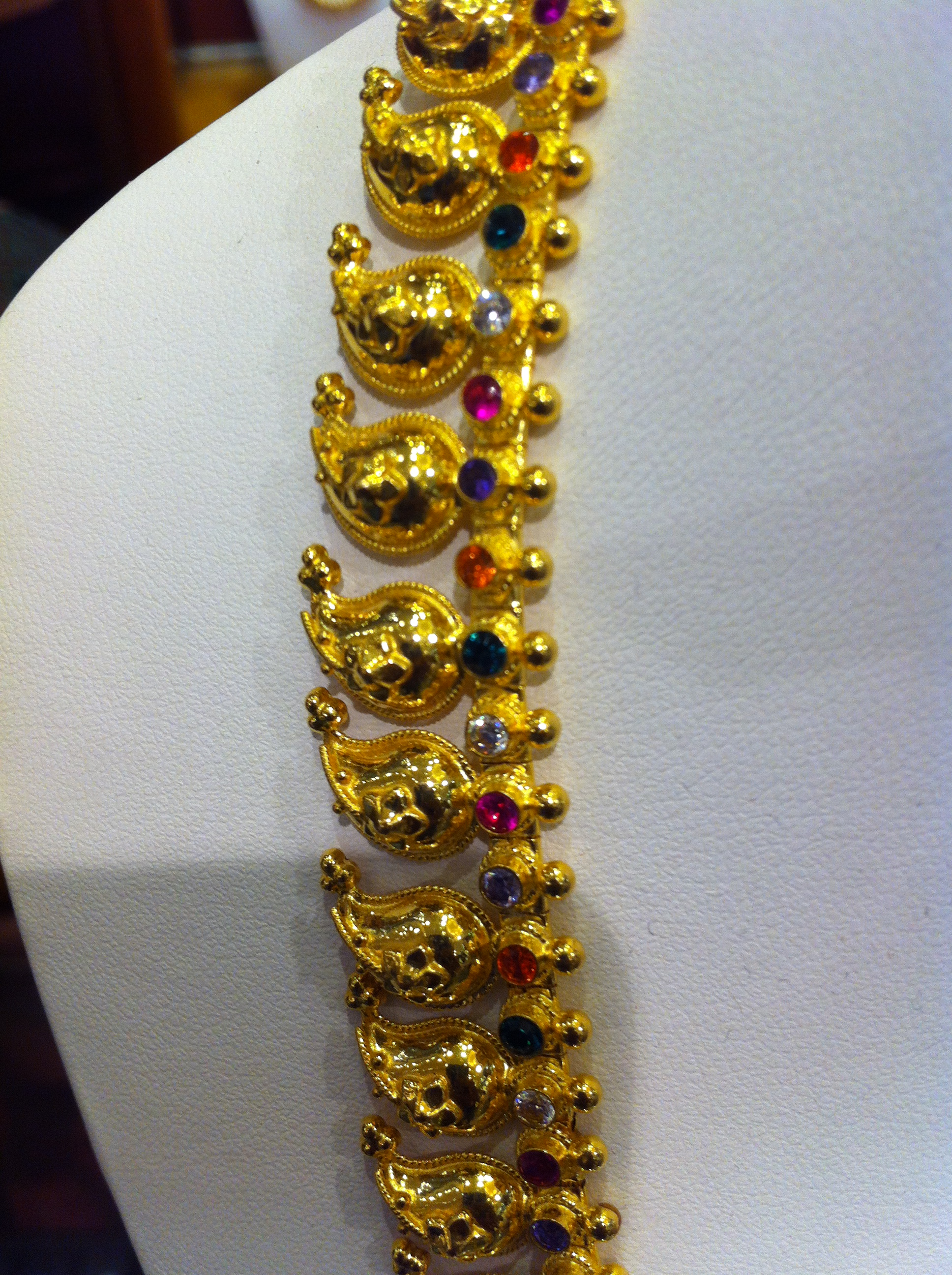 Jewellery of Tamil Nadu